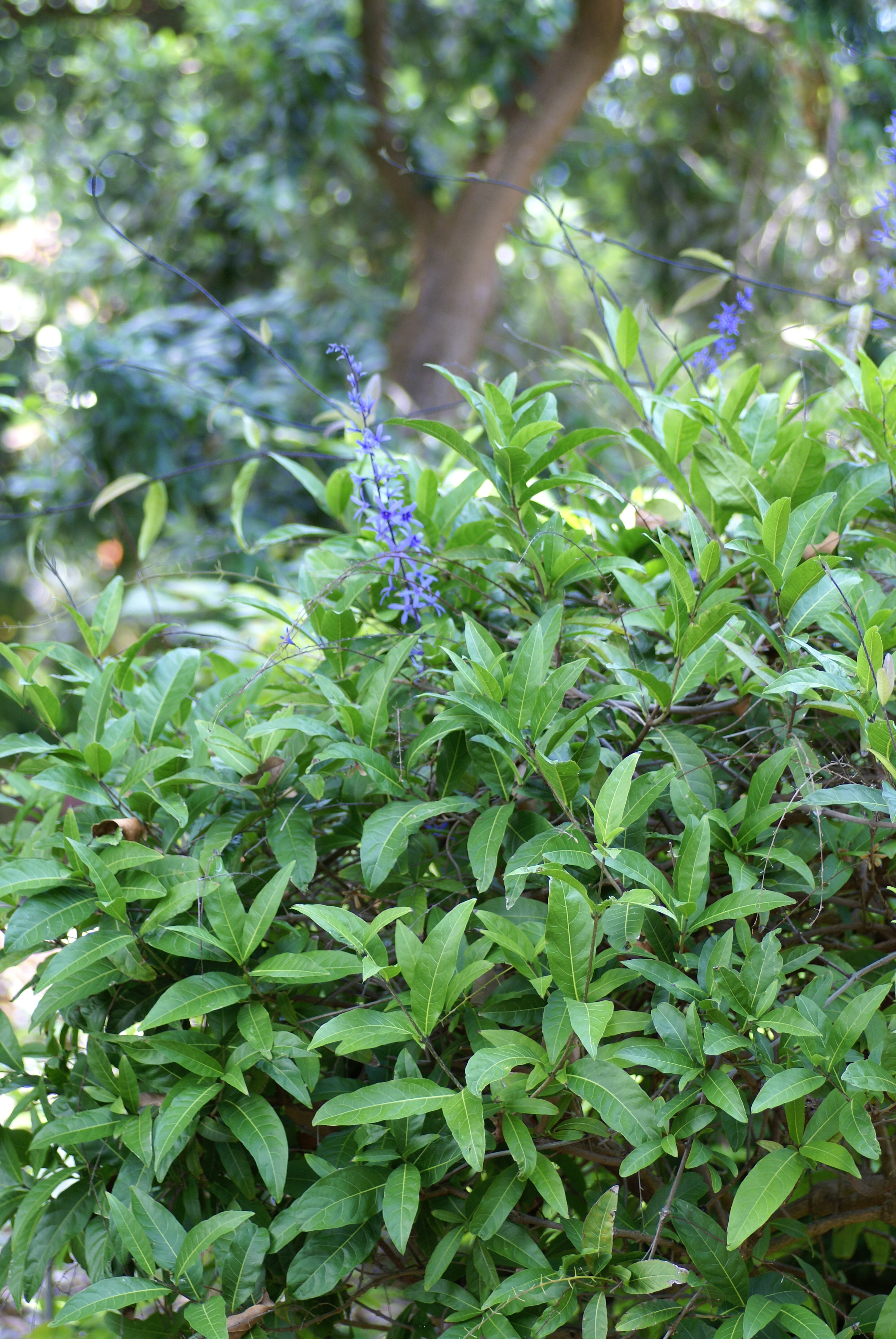 Bush of plant species Petrea volubilis in the botanical garden in Puerto de la Cruz on Tenerife.